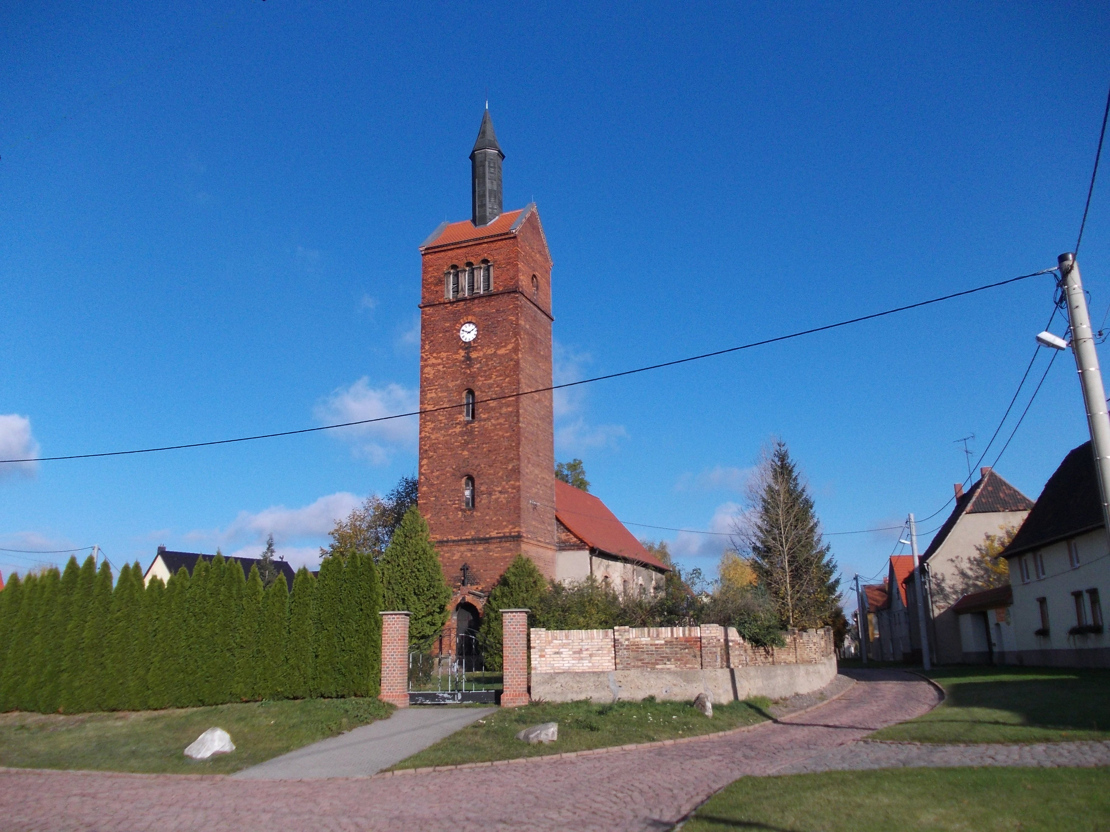 St. Maurice Church in Grosskugel (Kabelsketal, district of Saalekreis, Saxony-Anhalt)